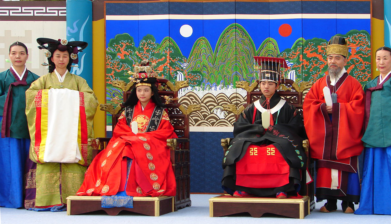 Royal Wedding Ceremony. Reenactment of King Gojong and Empress Myeongseong’s (Queen Min) Royal Wedding Ceremony that took place on the grounds of Unhyeon Palace on March 21, 1866. Unhyeon Palace (운현궁) is the former Korean royal residence of Prince Regent Daewon-gun, ruler of Korea during the Joseon Dynasty in the 19th century, and father of Emperor Gojong. This reenactment takes place in the spring and fall each year.